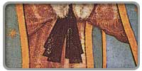 Juosta